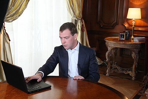 GORKI, MOSCOW REGION. During the recording of the video message devoted to the problems surrounding the global financial crisis.